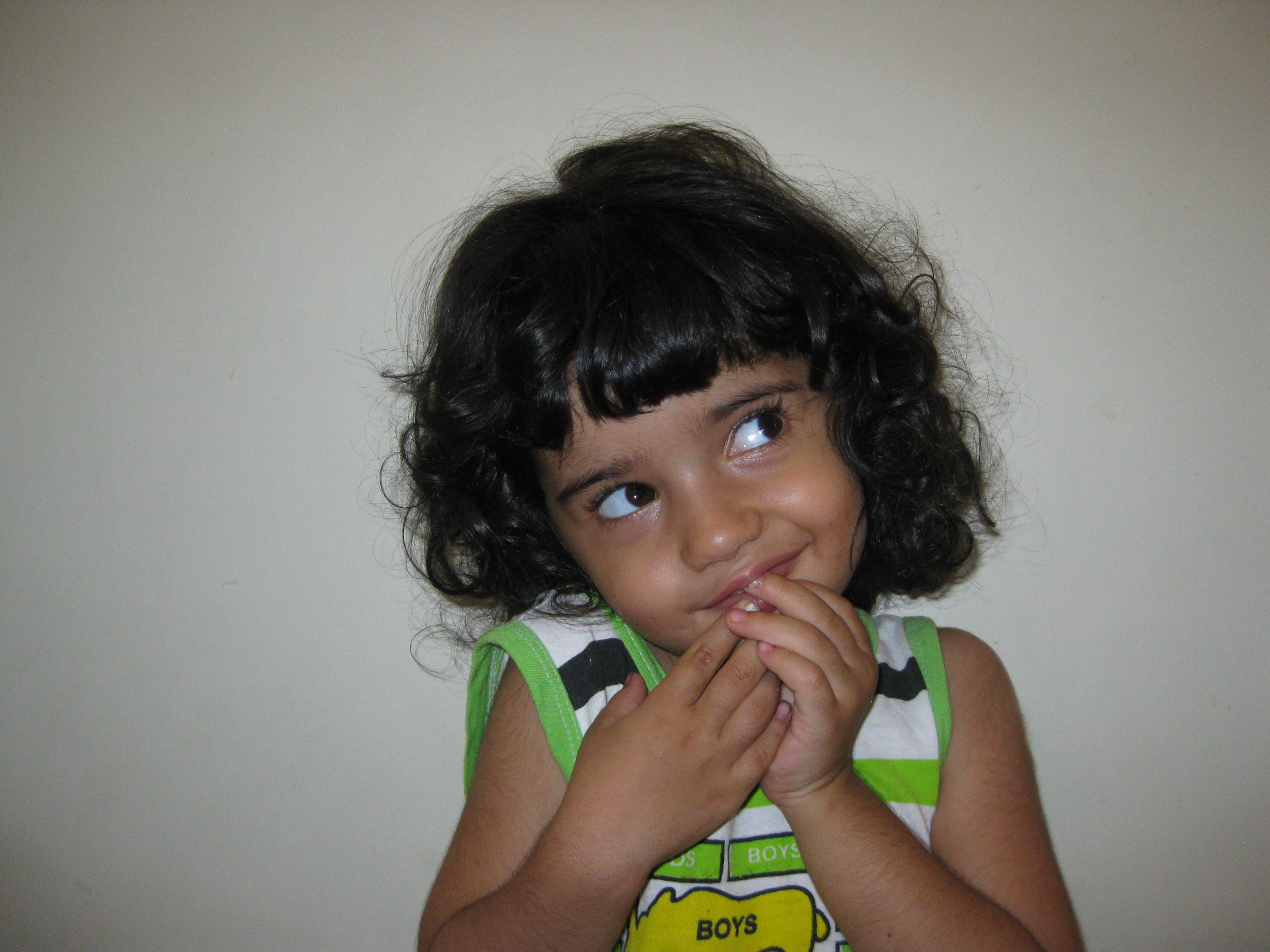 An Iranian little girl with posture